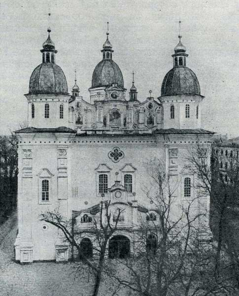 Photograph of Bohoyavlensky cathedral in Kyiv